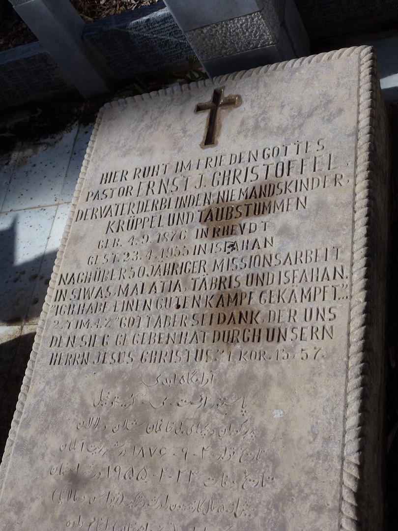 Grave of Jakob Ernst Christoffel, Armenian Cemetery in Isfahan, Iran